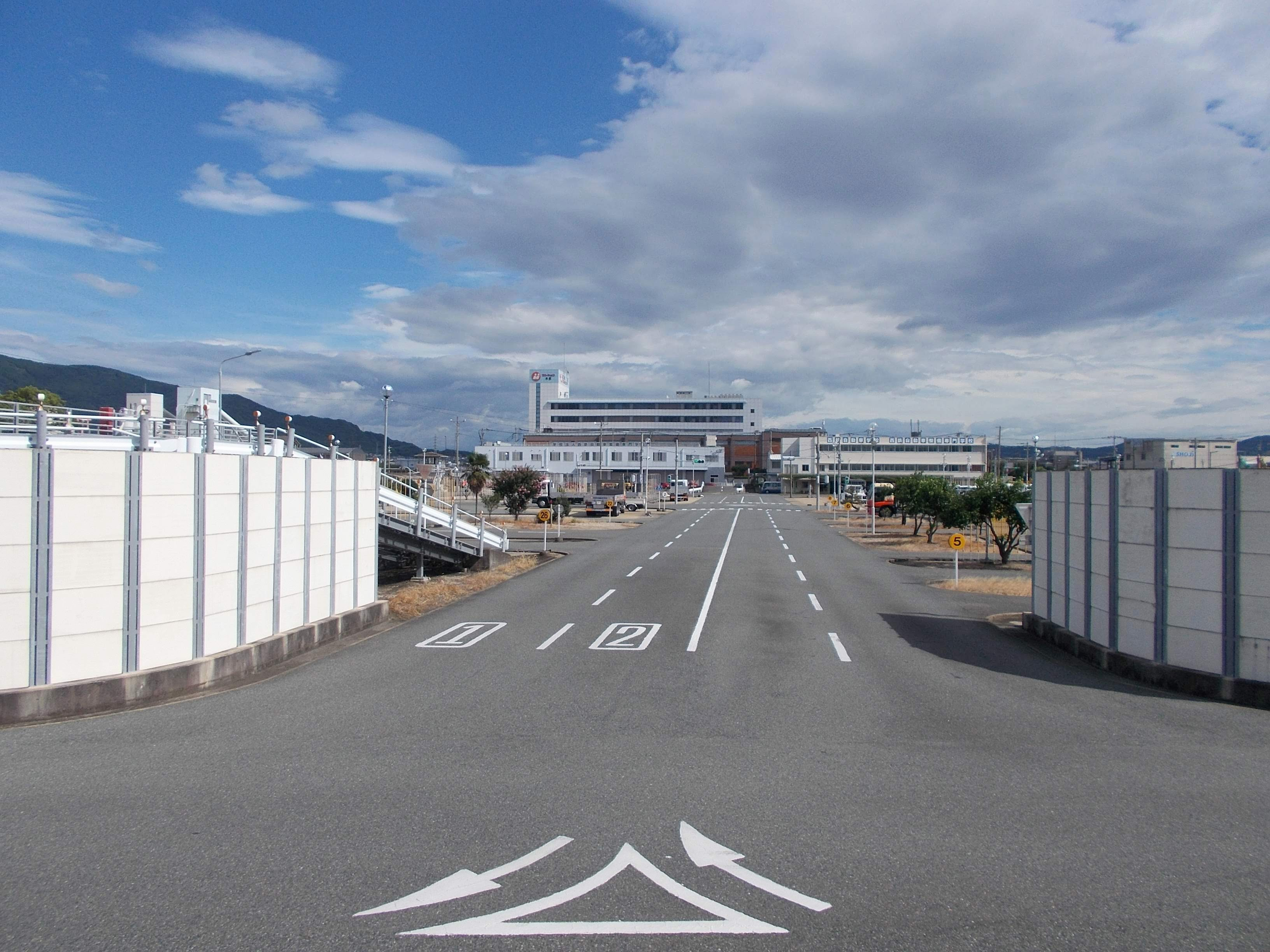 Nishitetsu Driving School, Onojo, Fukuoka, Japan